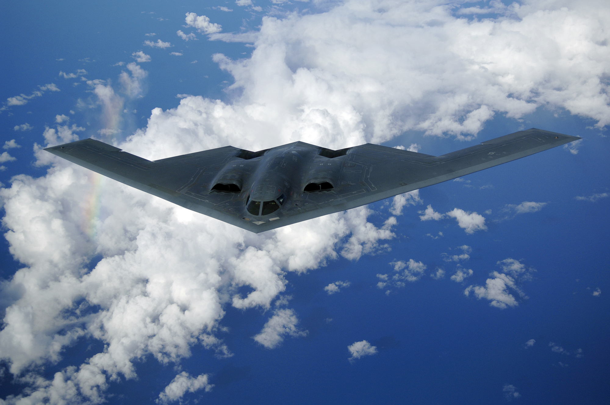 A B-2 Spirit soars after a refueling mission over the Pacific Ocean on Tuesday, May 30, 2006. The B-2, from the 509th Bomb Wing at Whiteman Air Force Base, Mo., is part of a continuous bomber presence in the Asia-Pacific region. (U.S. Air Force photo/Staff Sgt. Bennie J. Davis III)